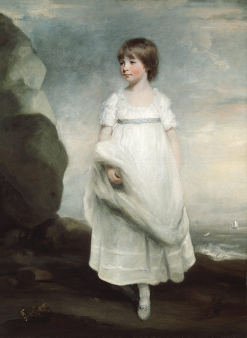 Portrait of Anne Isabella Milbanke (1792-1860) later Lady Byron